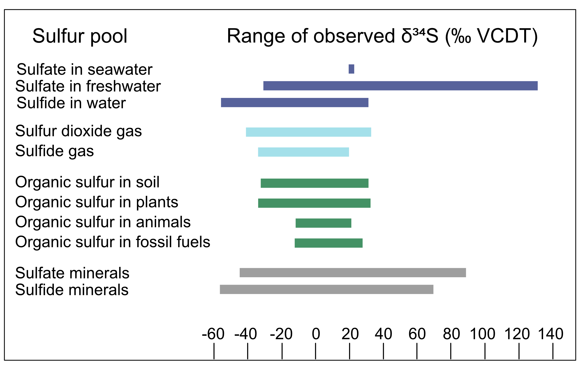 The range of sulfur isotopic composition observed in some natural materials on Earth. Modified and simplified from Meija et al. (2013).